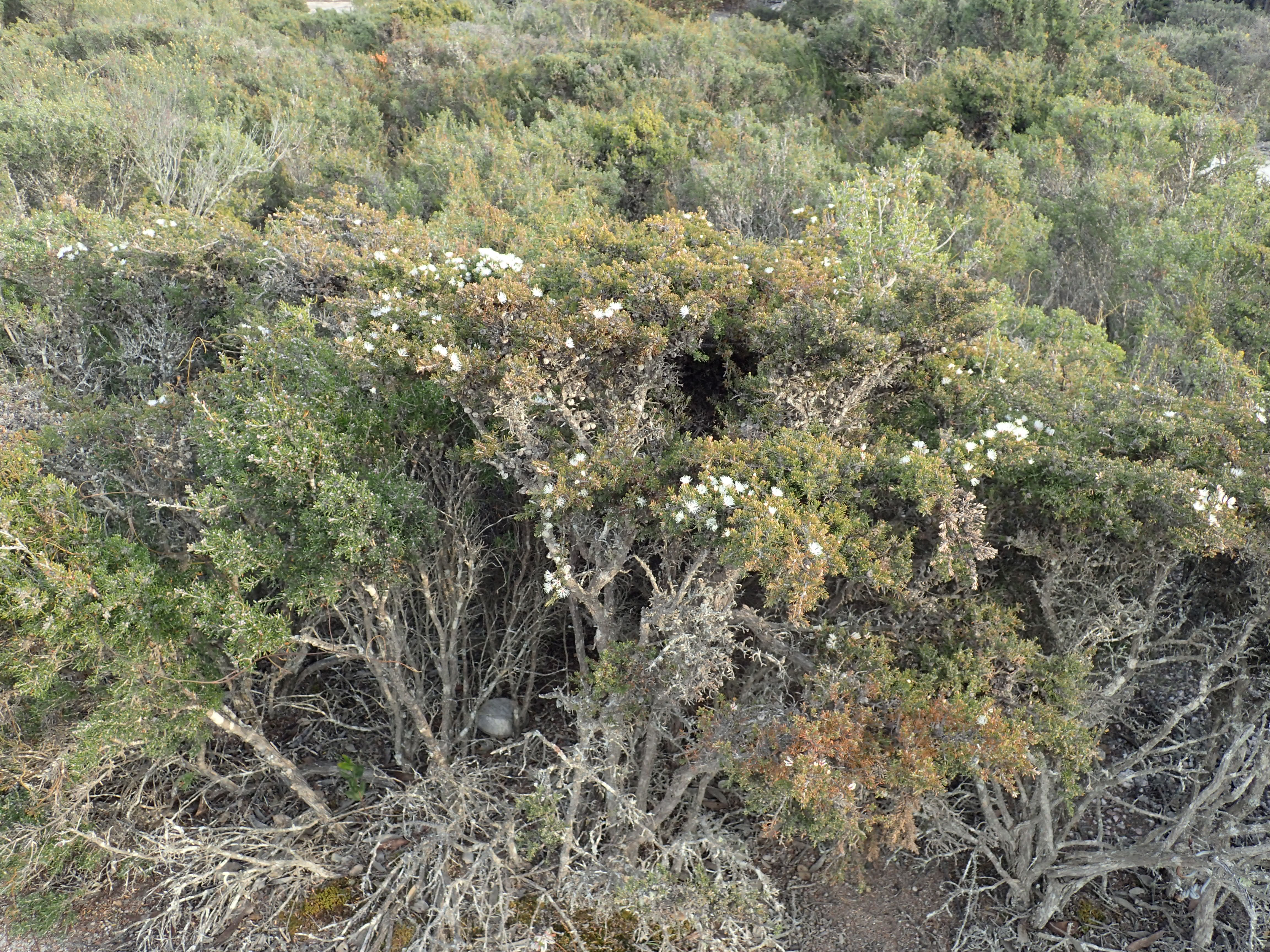 Melaleuca haplantha growing in the Kundip Rest Area near Ravensthorpe